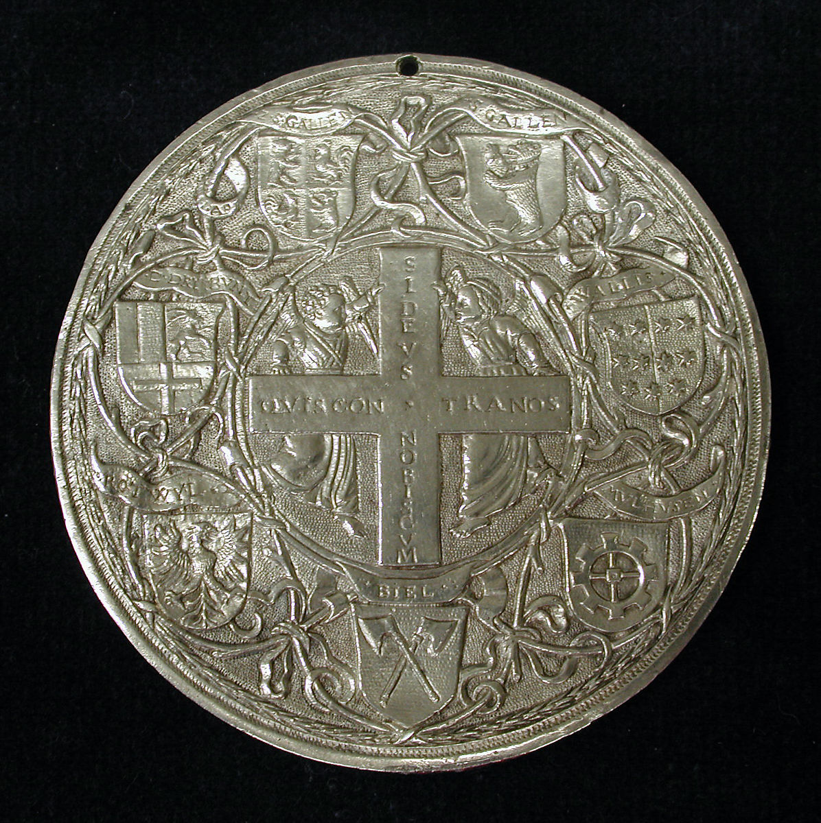 Medal Issued by the Swiss Cantons on the Birth of Princess Claude of France 1547. Silver, diameter 78 mm. Metropolitan Museum Accession Number: 2005.18 (obverse: File:Patenpfennig Stampfer 1547 obv.jpg) Coats of arms of seven Eternal Associates of the Swiss Confederacy H·APT·Z·S·GALLEN (Abbot of St. Gallen, arms of Diethelm Blarer von Wartensee r. 1530–1564) S·GALLEN (City of St. Gallen) D·DRY·BVNT (Three Leagues) WALLIS (Valais) ROTWYL (Rottweil) MVLHVSEN (Mulhouse) BIEL (Biel). At the center a Swiss cross held by two angels, inscribed SIDEVS · NOBISCVM / QVISCON · TRANOS (si deus nobiscum, quis contra nos).